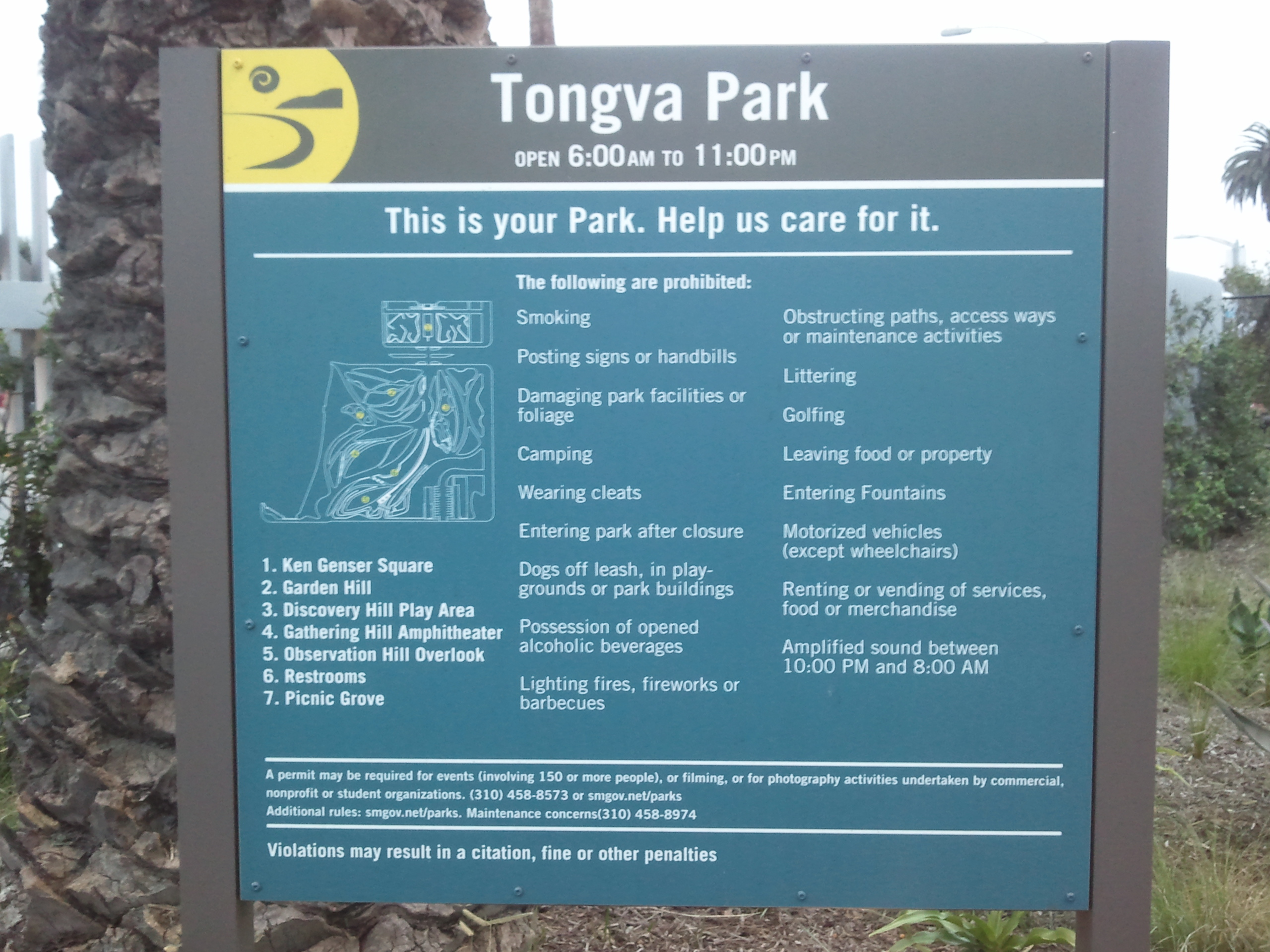 City of Santa Monica sign describing Tongva Park